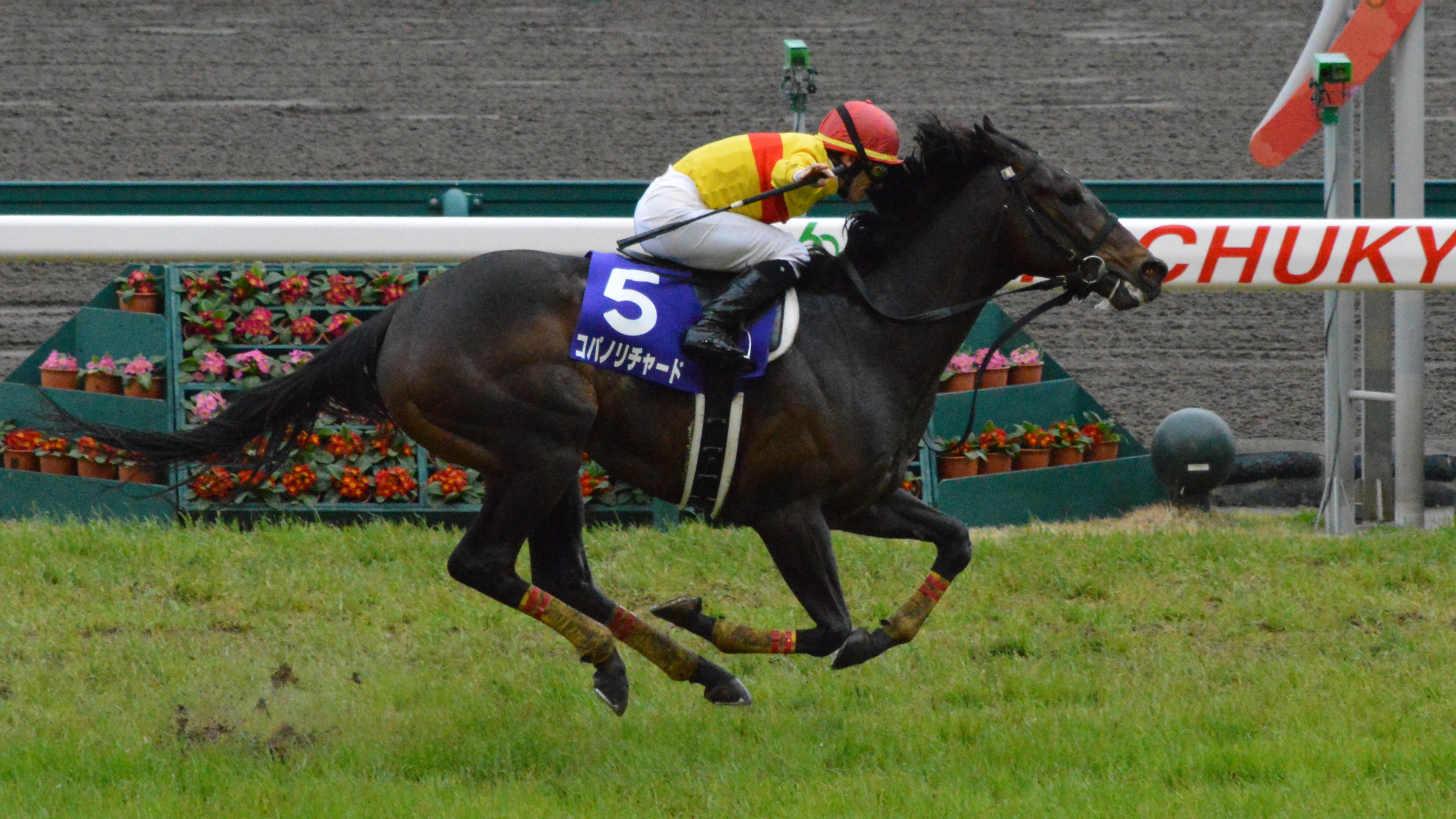 Japanese race horse Copano Richard at Chukyo racecourse. Chukyo (JPN) 30 Mar 2014Takamatsunomiya Kinen (Grade 1) (4yo+) (Turf) 6f Soft RankHorse NameOddsAgeWgtJockeyTrainer1stCopano Richard (JPN)67/10C49-0Mirco DemuroToru Miya2ndSnow Dragon (JPN)186/10H69-0Takuya OnoNoboru TakagiOthers are omitted. (18 horses entered in a race.)